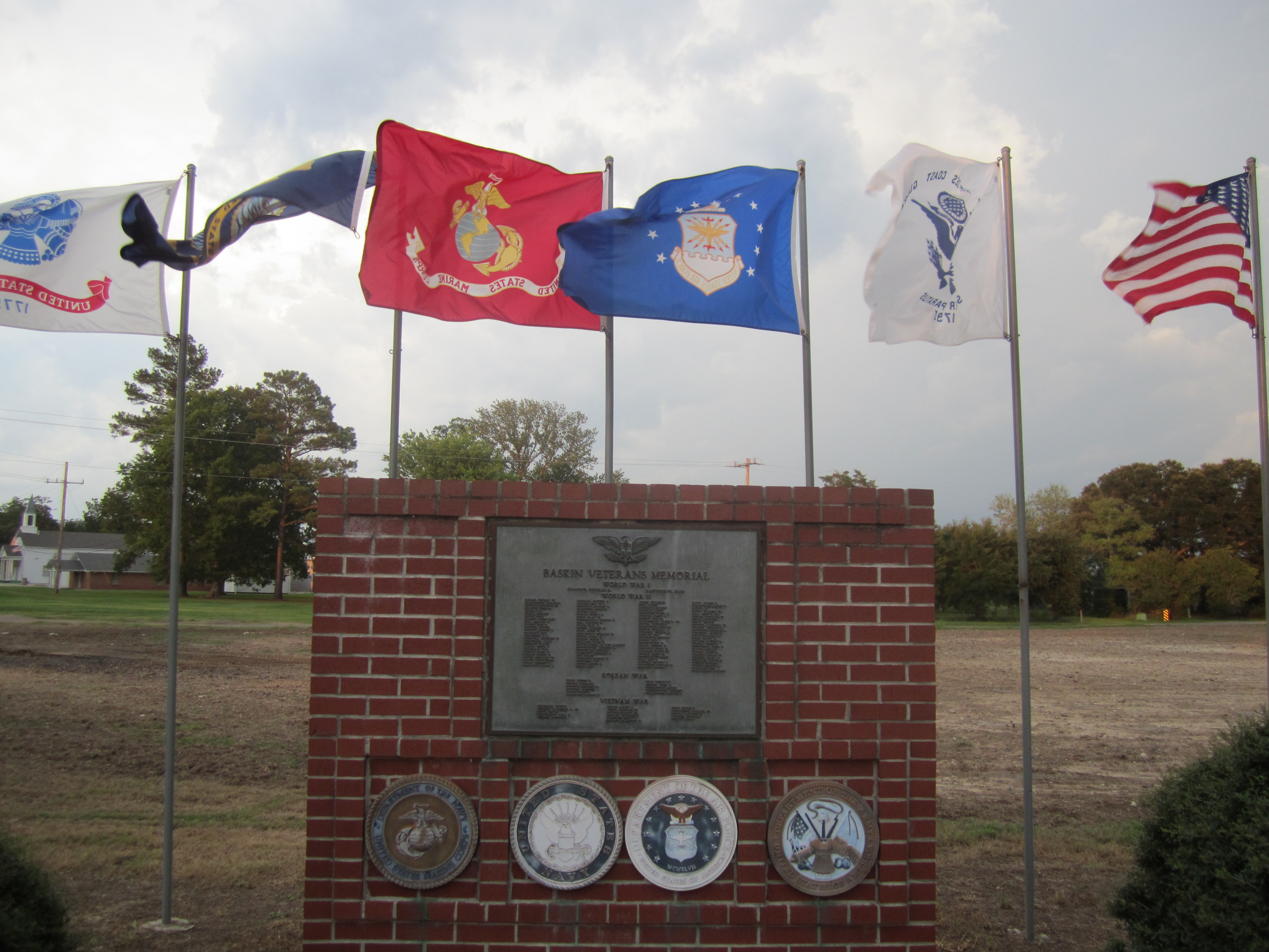 I took photo with Canon camera in Baskin, LA.